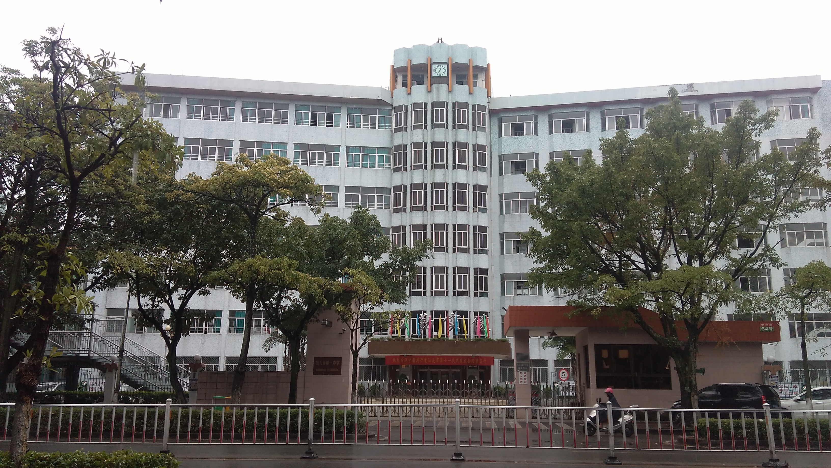 This picture shows the frontal view of the old campus of Shantou NO.1 High School, Guangdong Province, China.